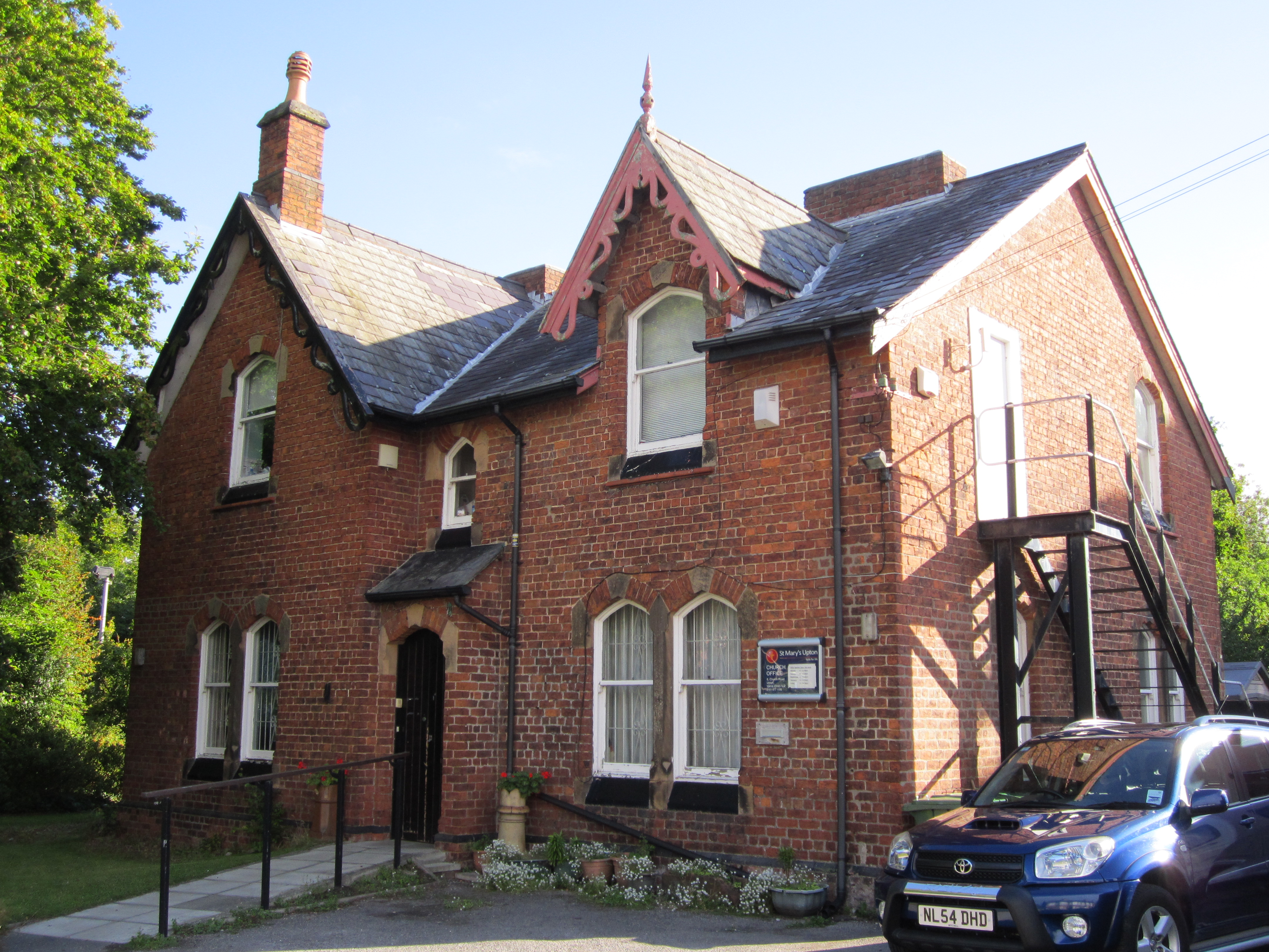 Holmleigh, 8 Church Road, Upton, Wirral, Merseyside, England. This detached house is used by the nearby St Mary's Church.